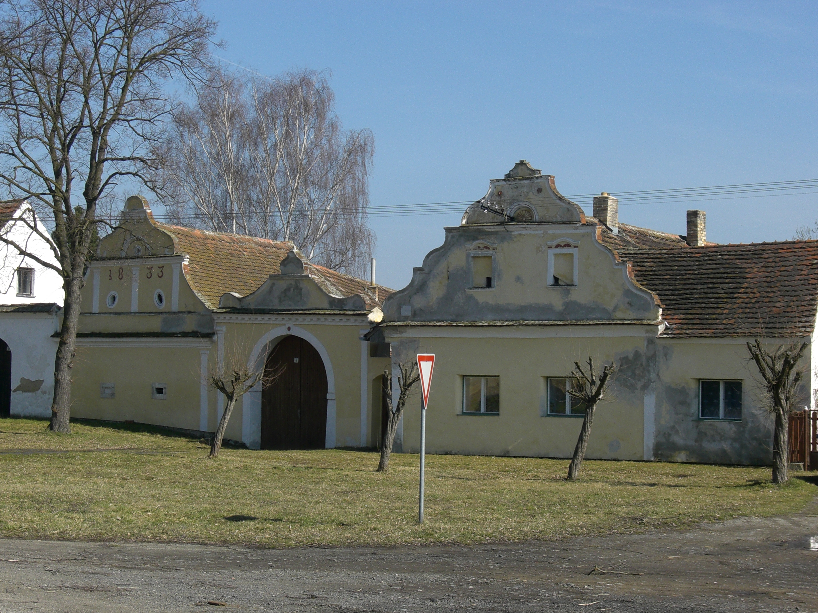 Skály village in Písek district, Czech Republic. Homestead in the "country baroque" style on the village common.